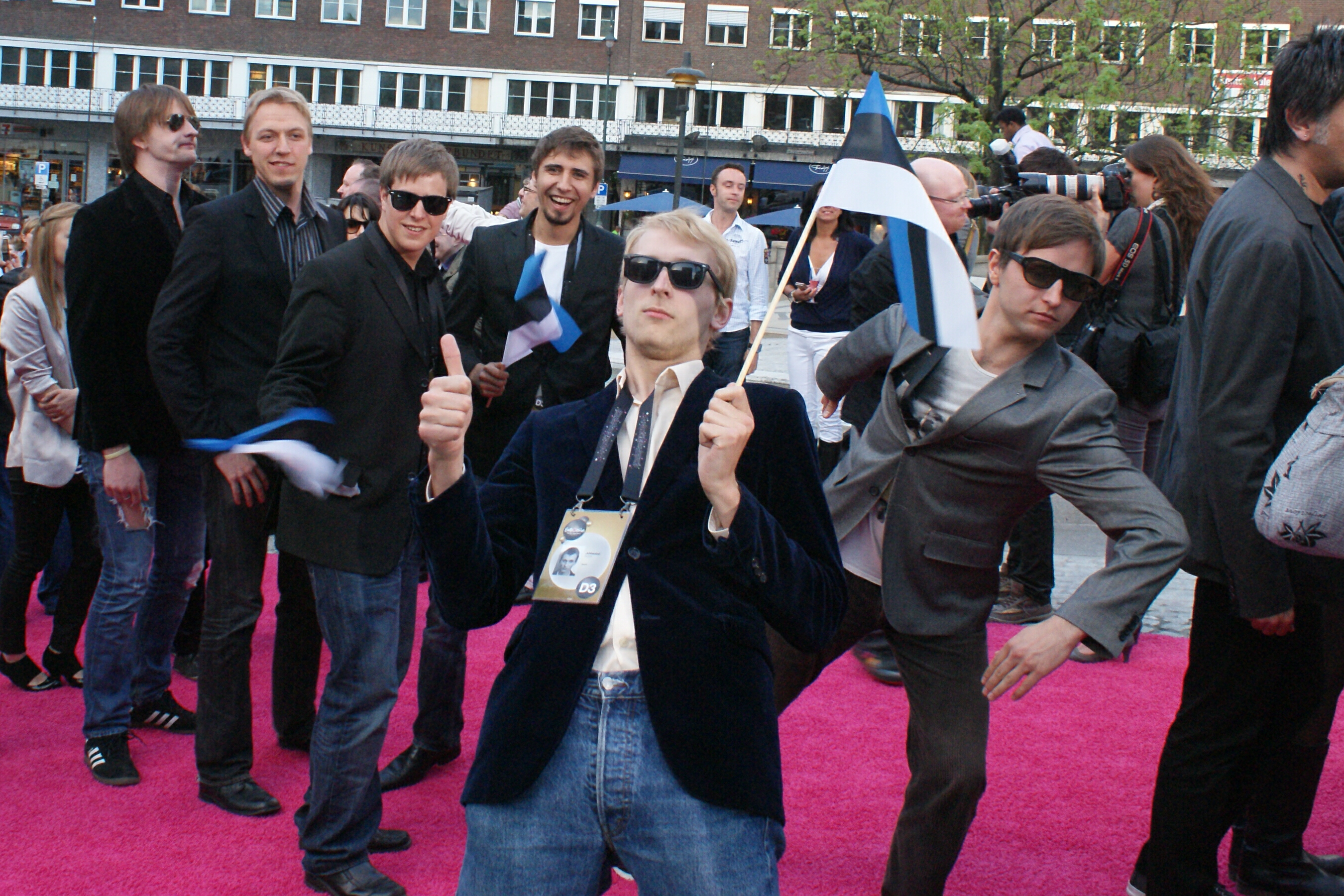 Estonian entrants for the Eurovision Song Contest 2010 Malcolm Lincoln & Manpower 4 in Oslo.